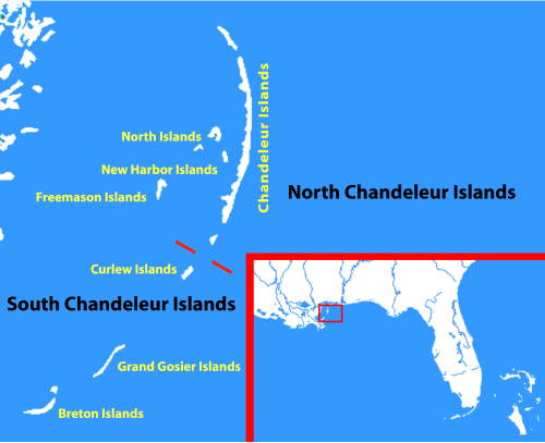 Position of Chandeleur Islands, LA